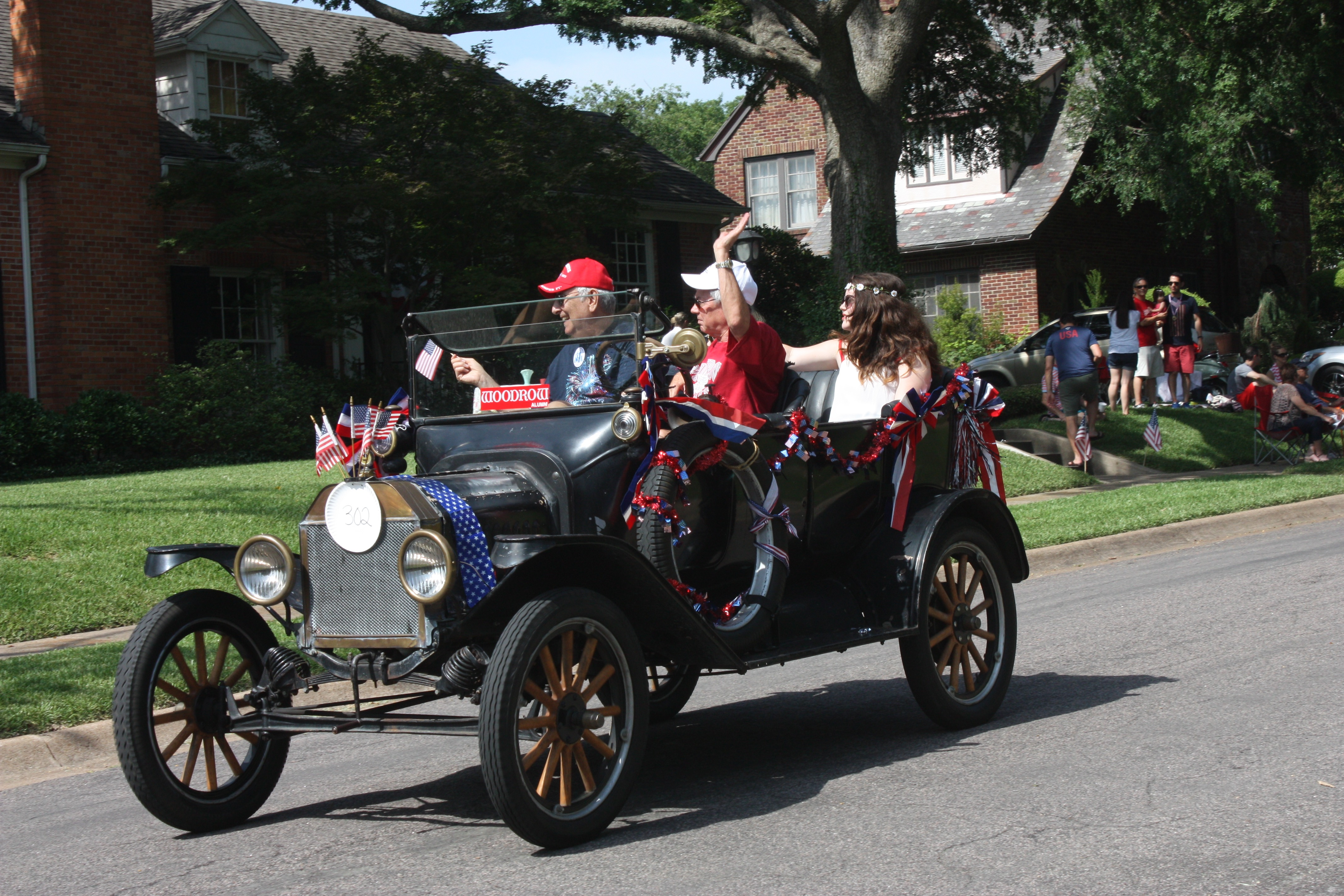 One of the many charming floats in the 2015 Lakewood 4th of July Parade